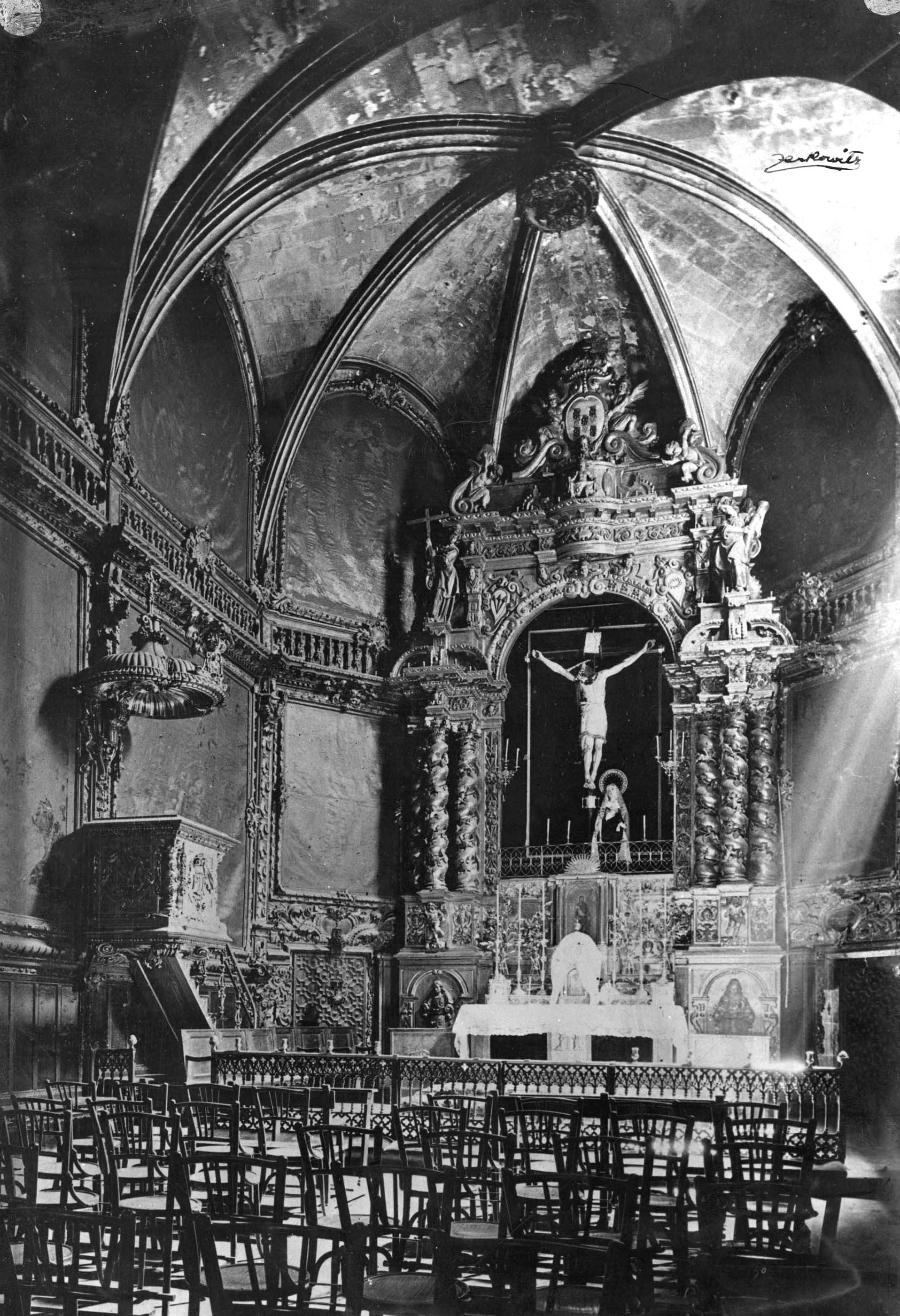 View of the altar of the Holy Blood Chapel in the church of Santa Maria del Pi in Barcelona around 1900. State prior to the destruction of 1936.